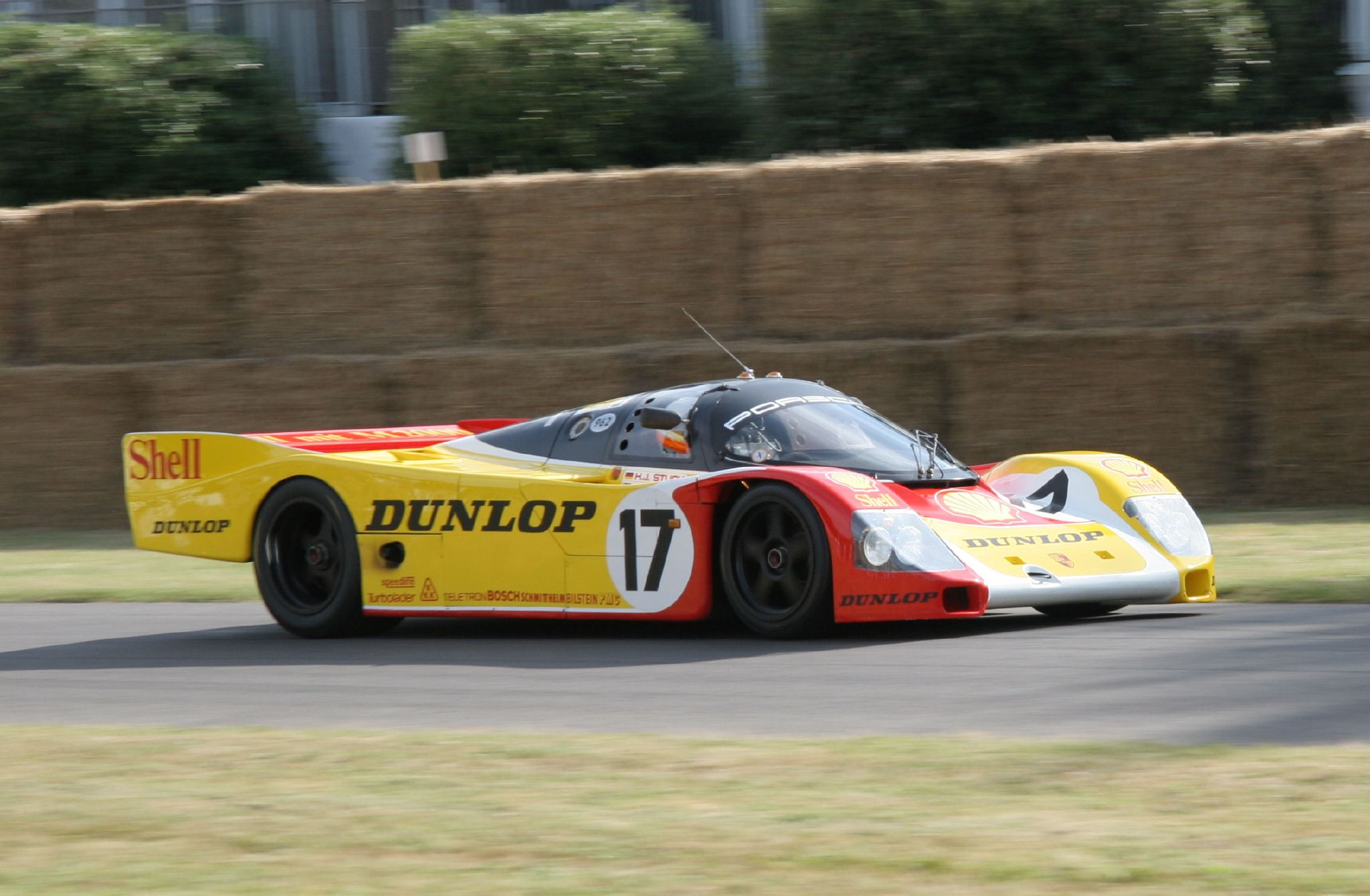 Factory Porsche 962C from the 1988 24 Hours of Le Mans. It finished second and was run by Hans-Joachim Stuck, Klaus Ludwig, and Derek Bell.